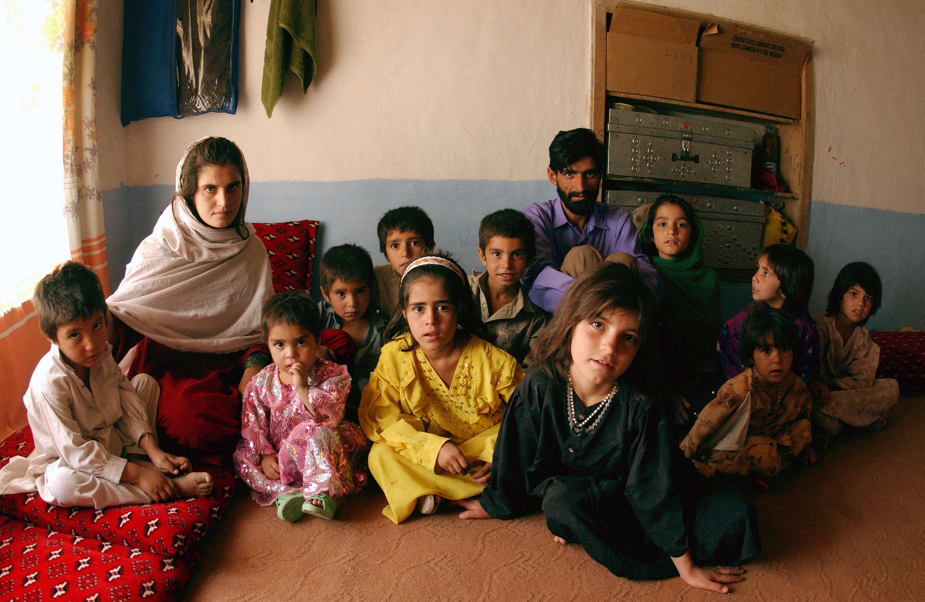 An Afghan family from the Pashtun tribe sits together in their home in Kabul, Afghanistan. (Released to Public).